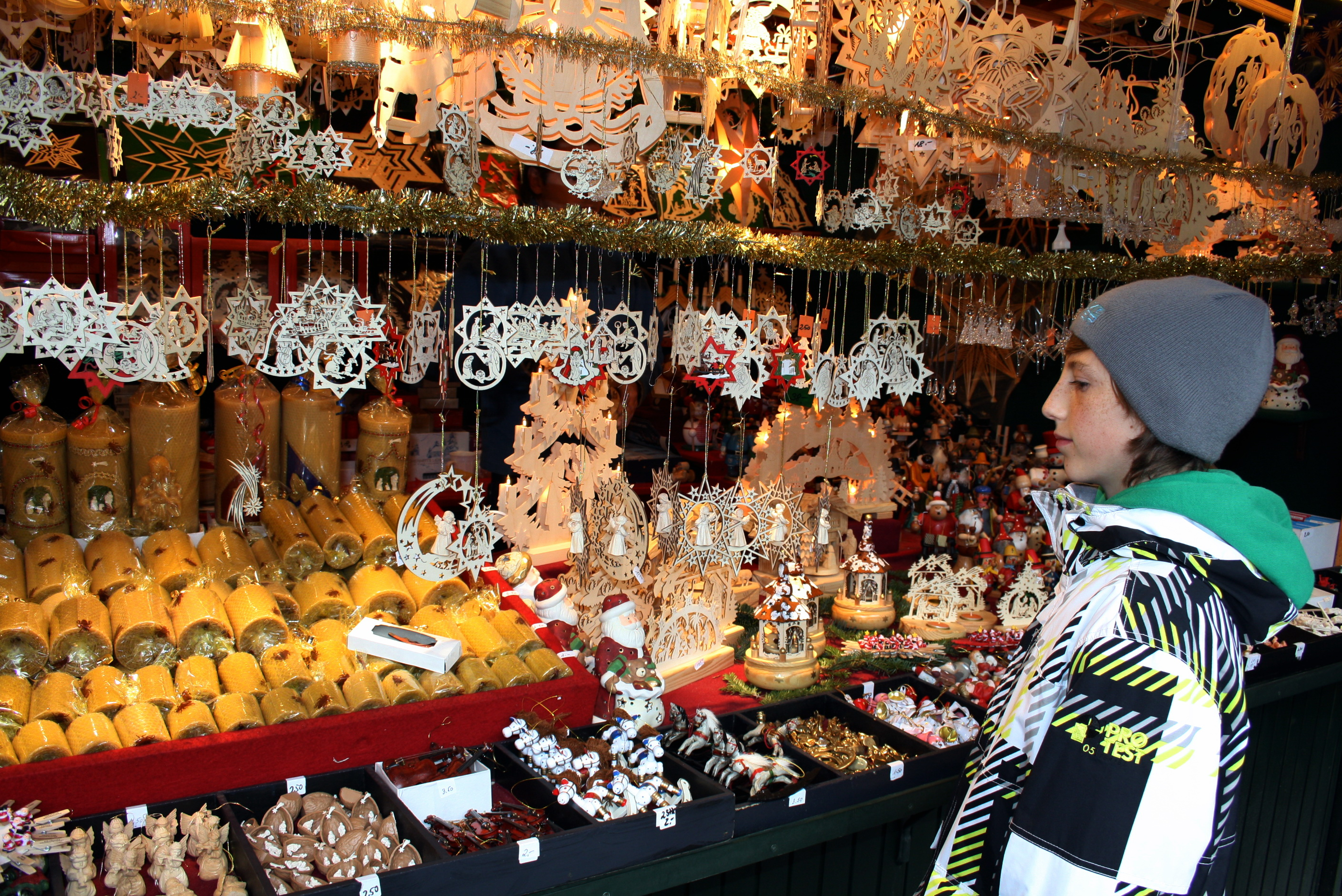 Christmas market in Salzburg, Austria.